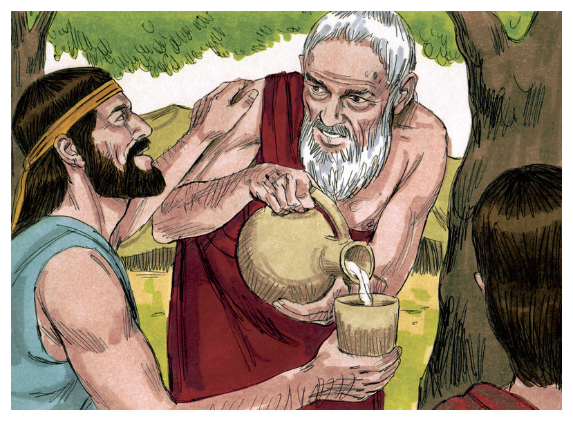 Biblical illustration of Book of Genesis Chapter 18